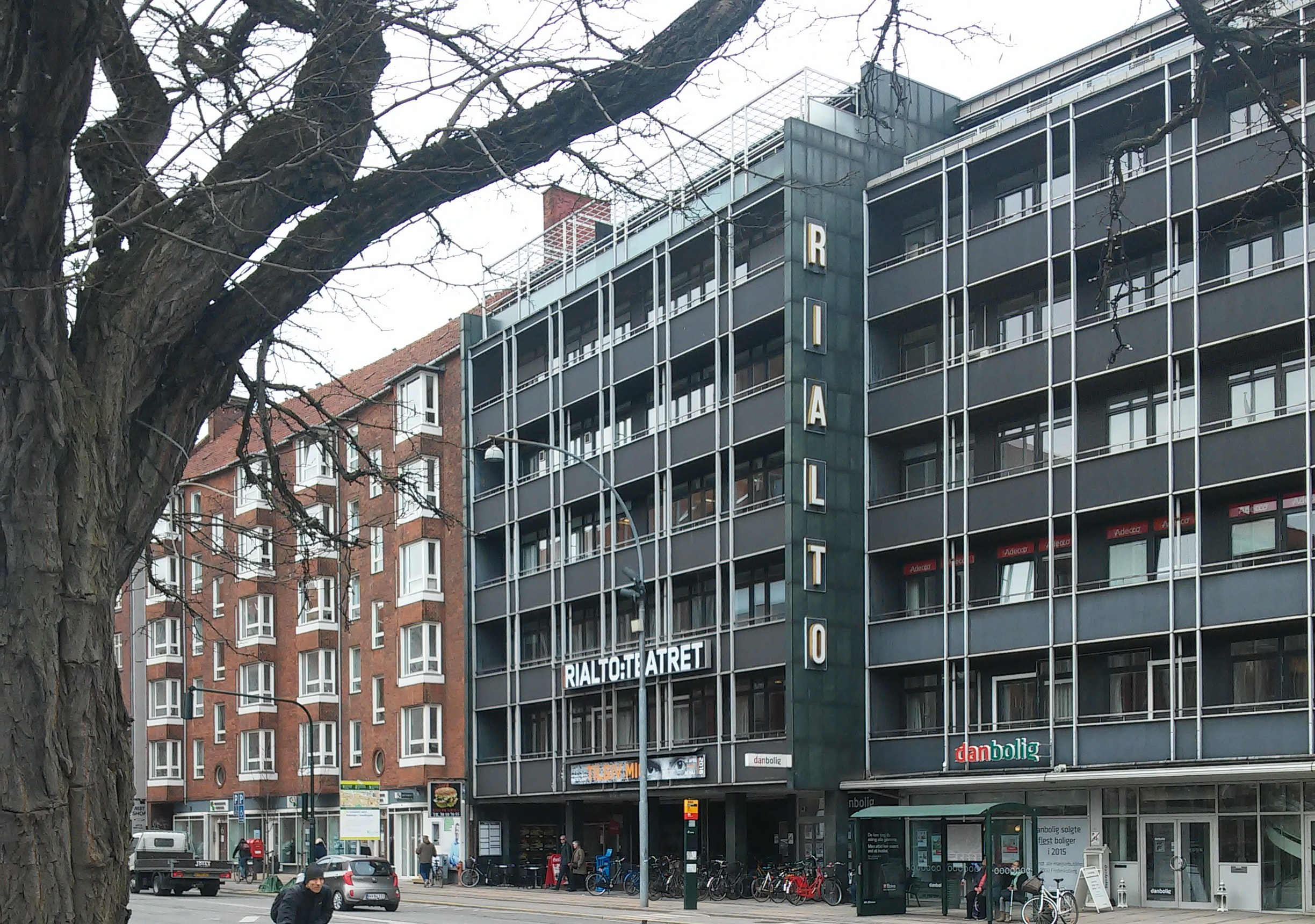 Rialto Teateret on Fredriksberg